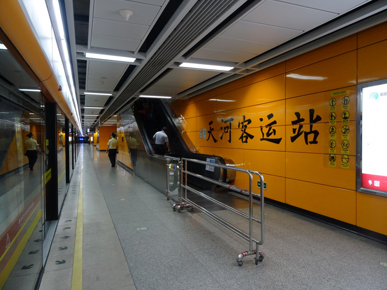 地铁天河客运站3号线嘅月台